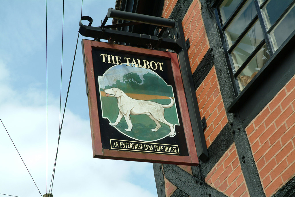 The Talbot pub sign, Worcester Road, Hartlebury This public house is part of the Enterprise Inns Group which now has over 7,000 establishments. It's strange that although the Talbot Hound as a breed of dog has been extinct for a very long time, there are still hundreds of pubs and hotels named after it.